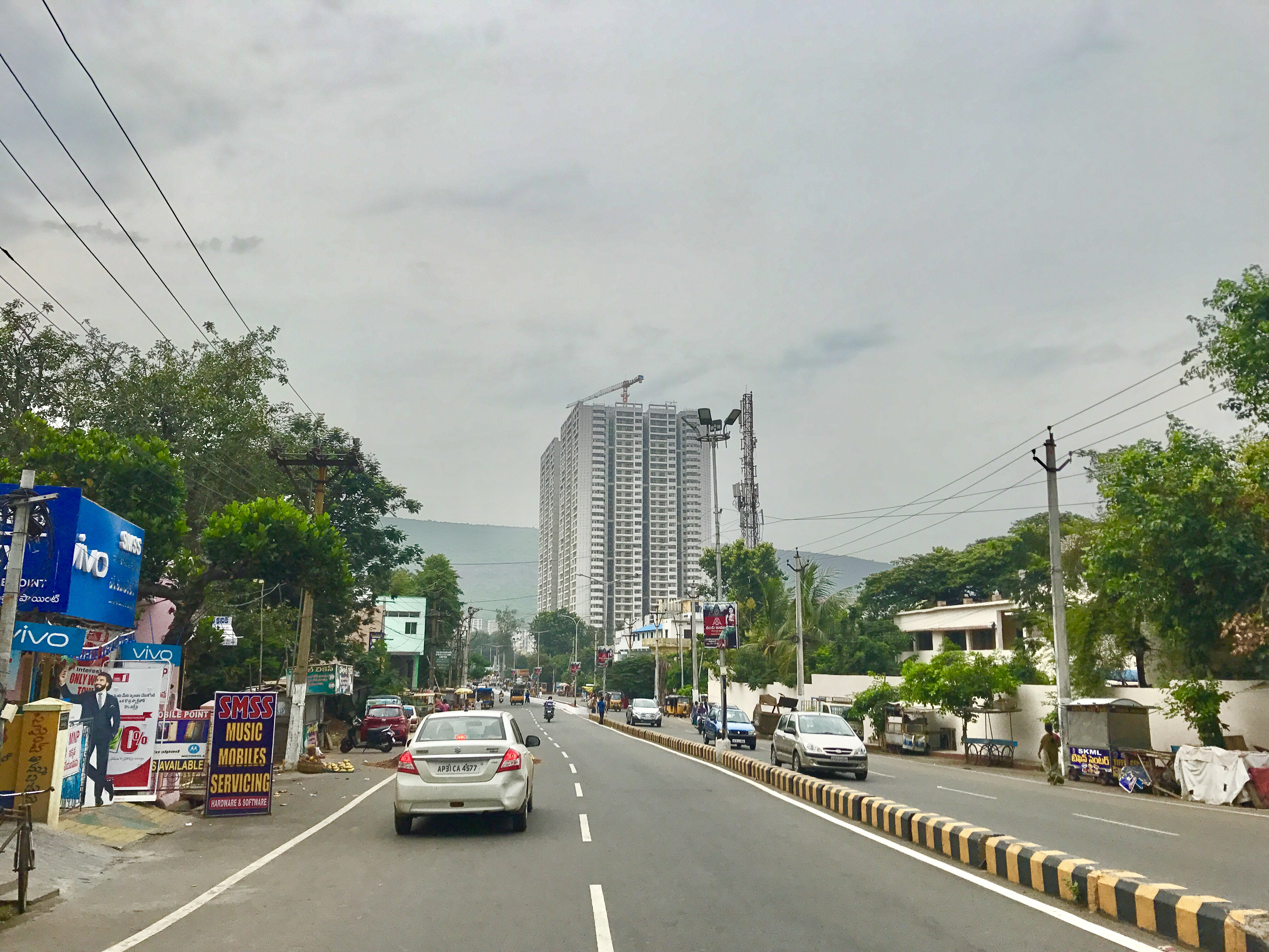 Oxygen Towers - Under Construction at Seethammadhaara